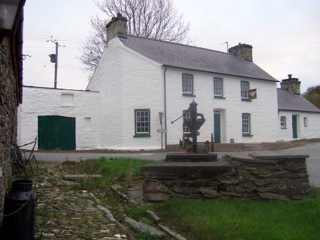 Ffynnongroes/Crosswell Hamlet at crossroads on the B4329, named after the old well, with pump, seen here. It's likely to have been an important stop on the way between Haverfordwest and Cardigan; the historical map confirmed my suspicion that the house was once an inn.